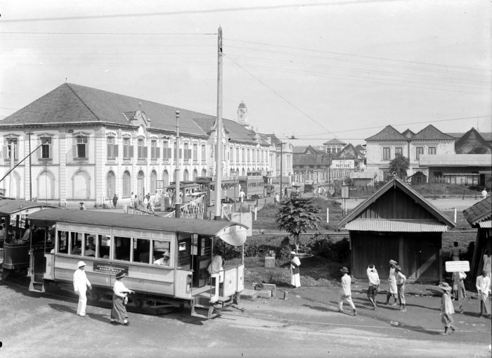 Steamtram in Batavia before the iron-works factory of Carl Schlieper